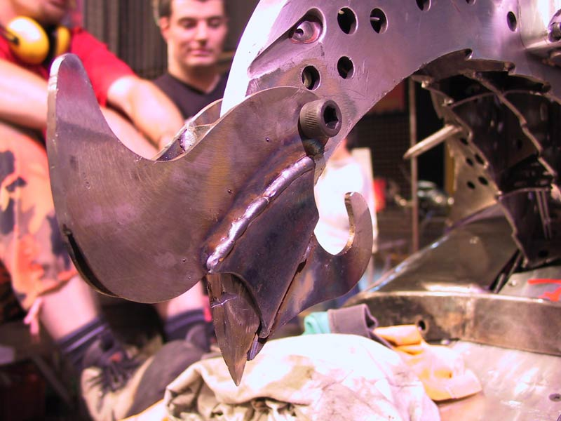 A close up of Robot Wars double world champion Razer's crushing arm fitted with a lifting hook.